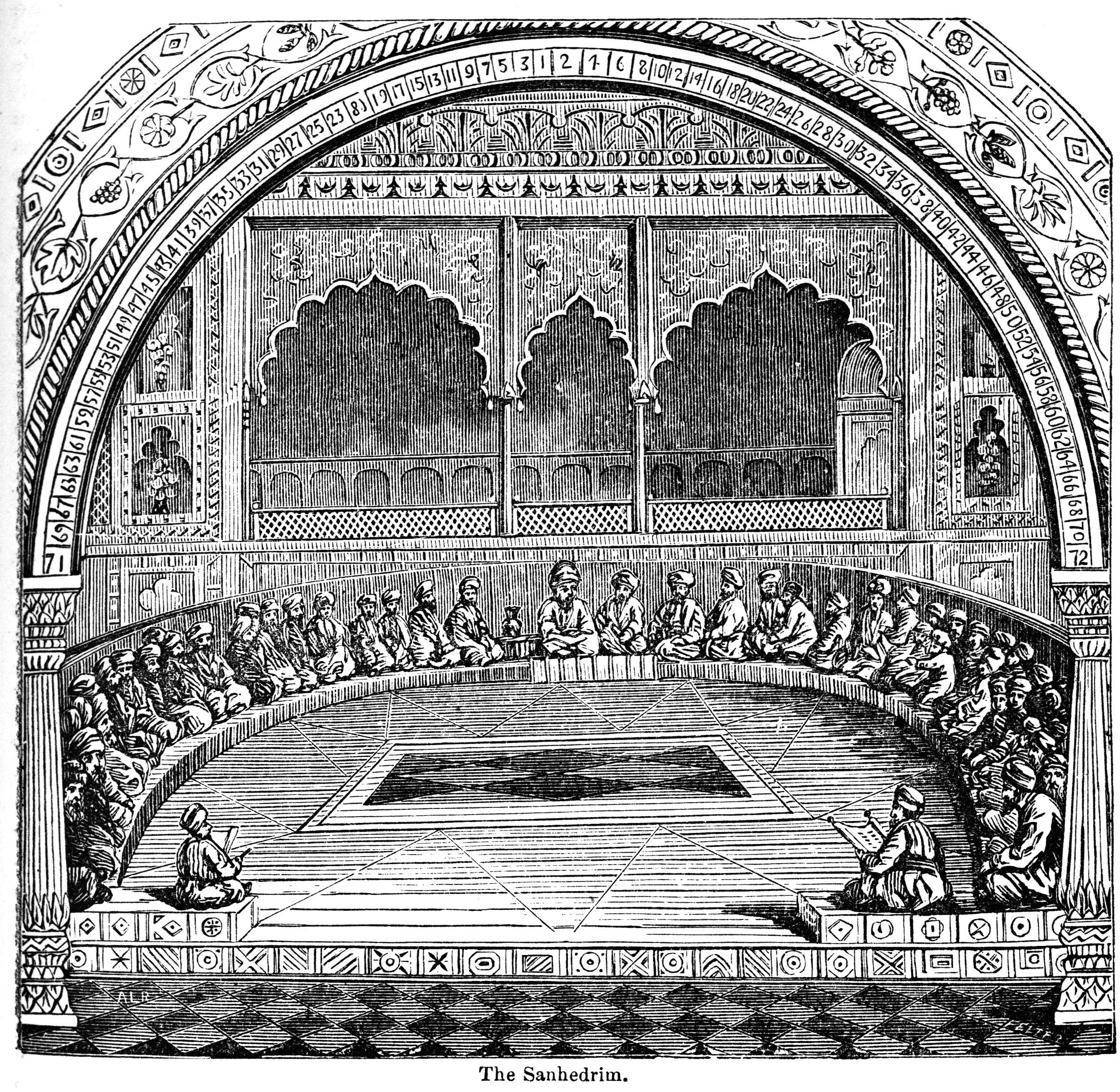 Illustration in 1883 encyclopaedia of the ancient Jewish Sanhedrin council (from Greek synedrion, synhedrion)